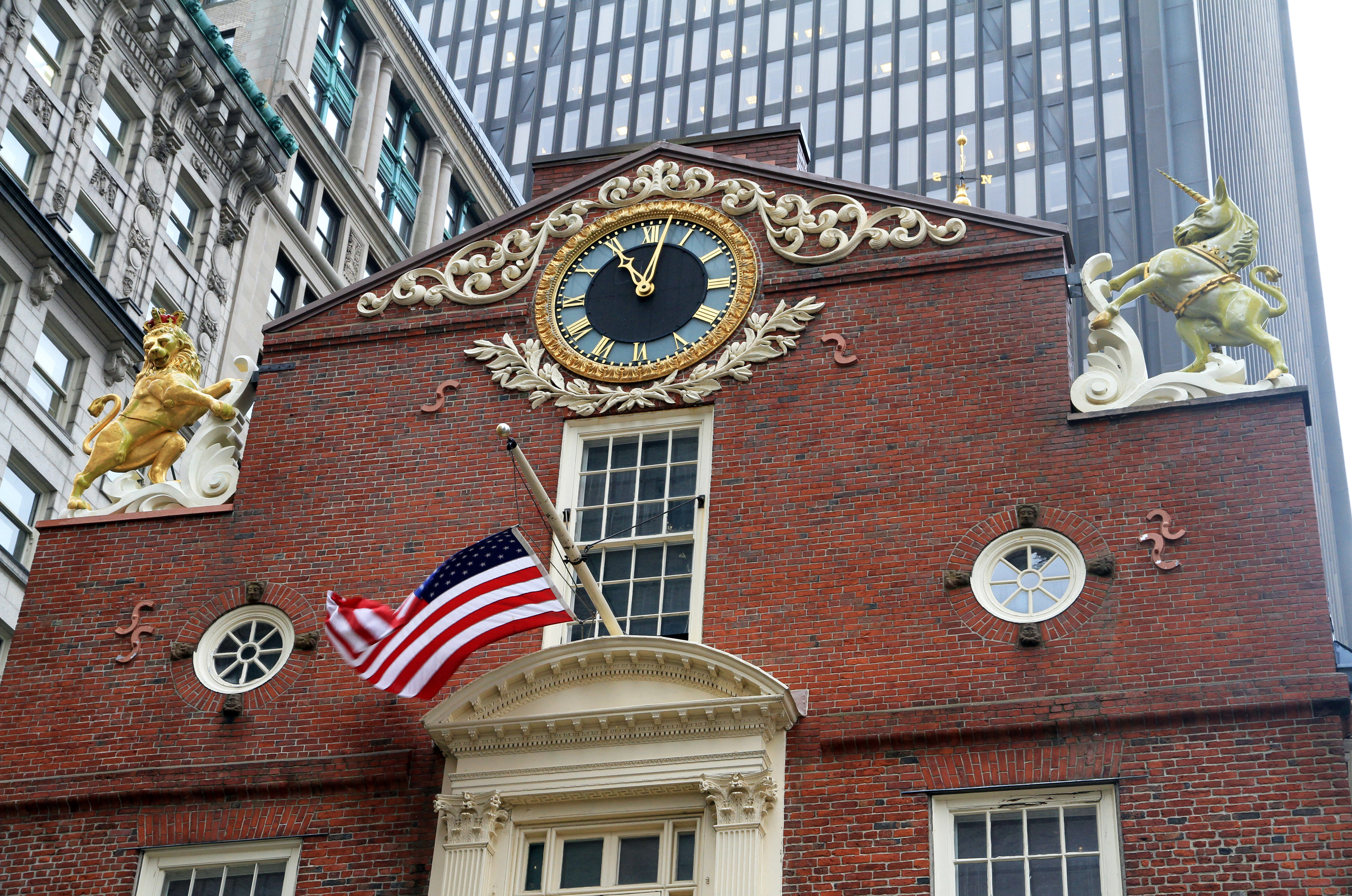 Old State House